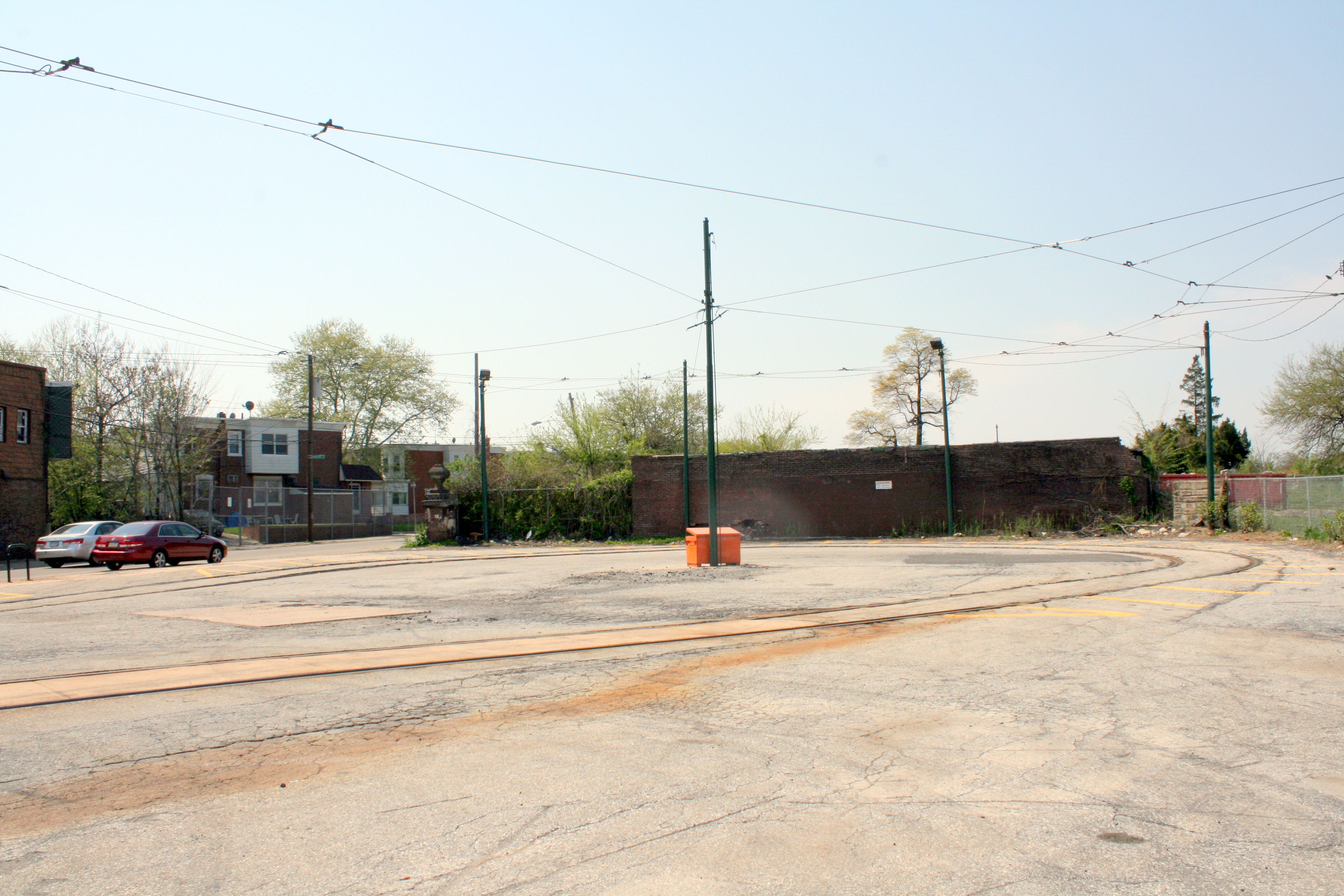 Mount Moriah (SEPTA station) in Philadelphia, PA